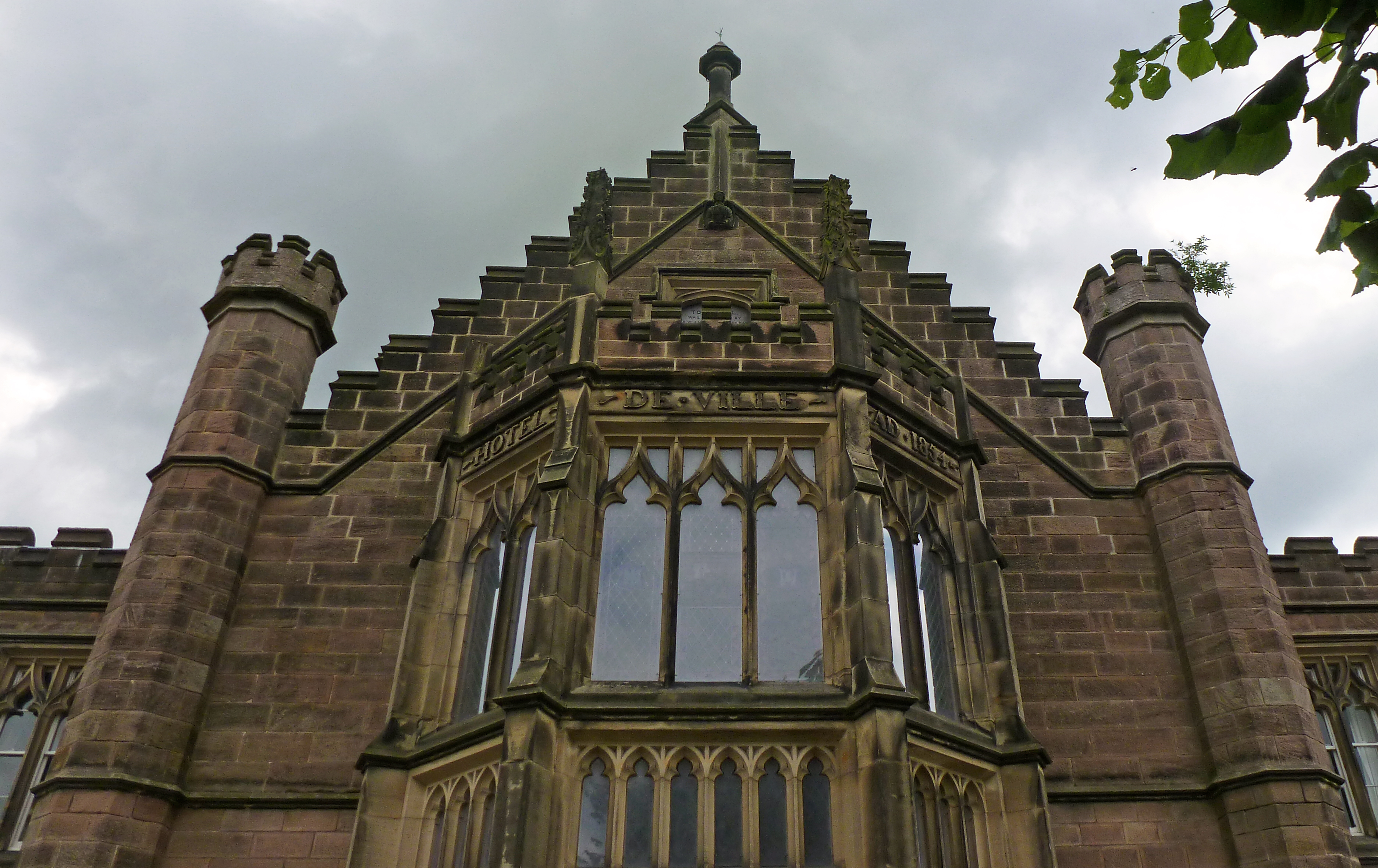 Ripley